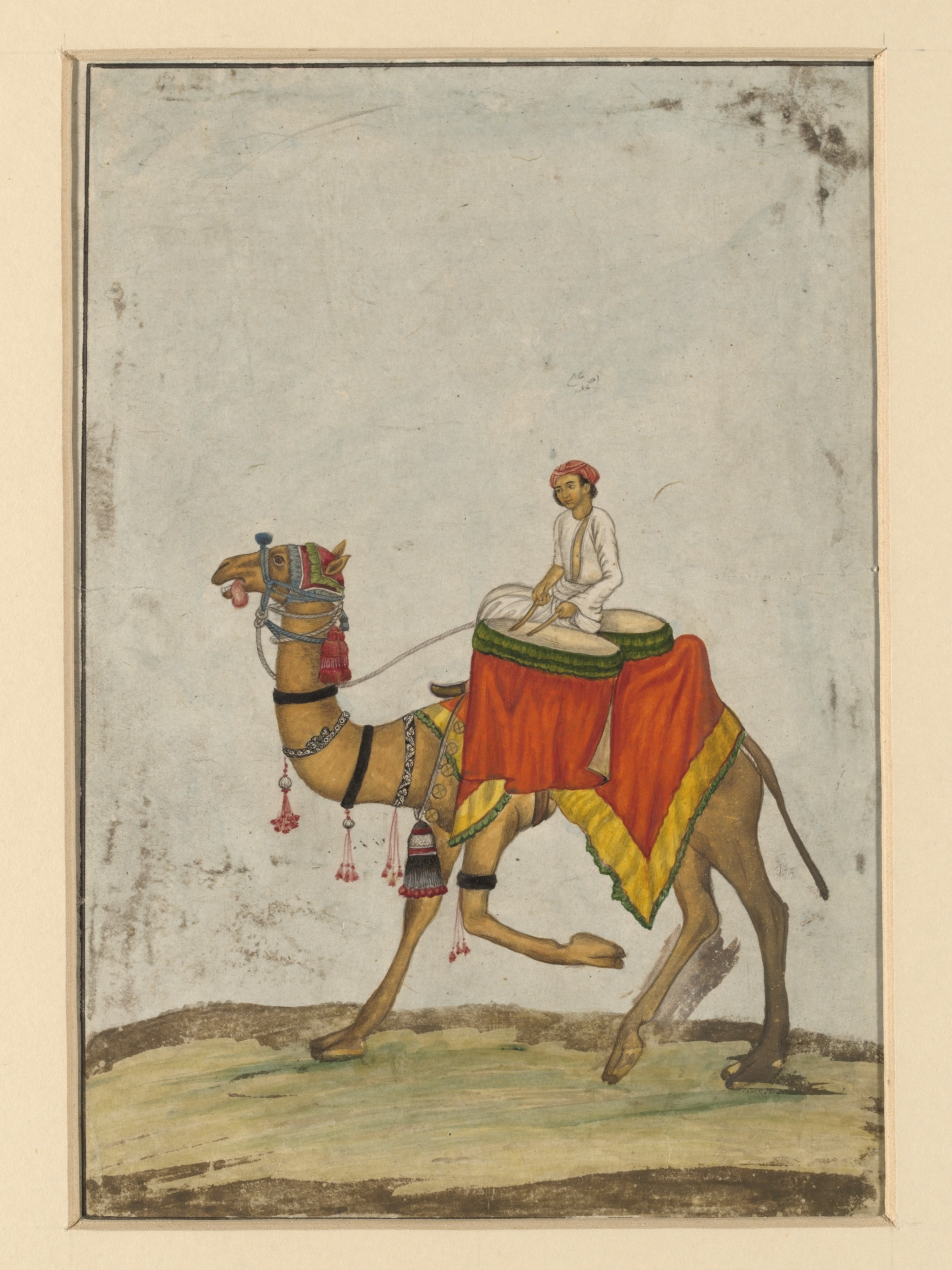 One of six figures from the Mughal emperor's ceremonial procession on the occasion of the Id.